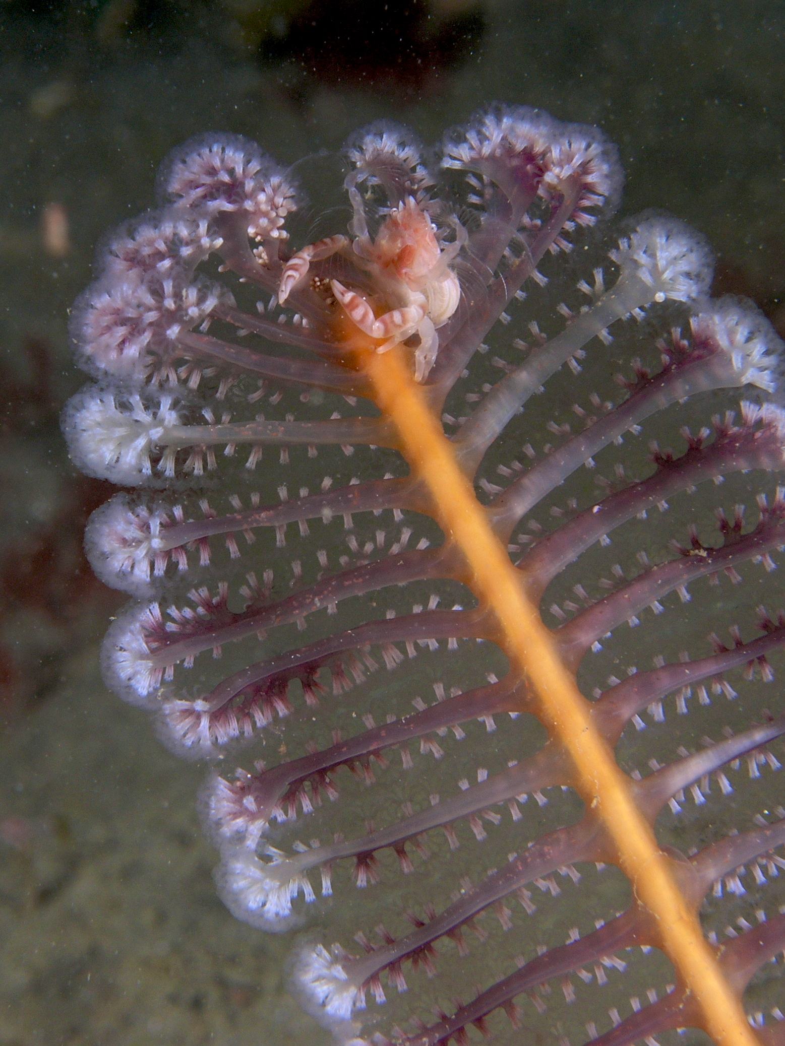 Porcellanella picta (Porcelain crab) on Virgularia (Red and white banded sea pen)